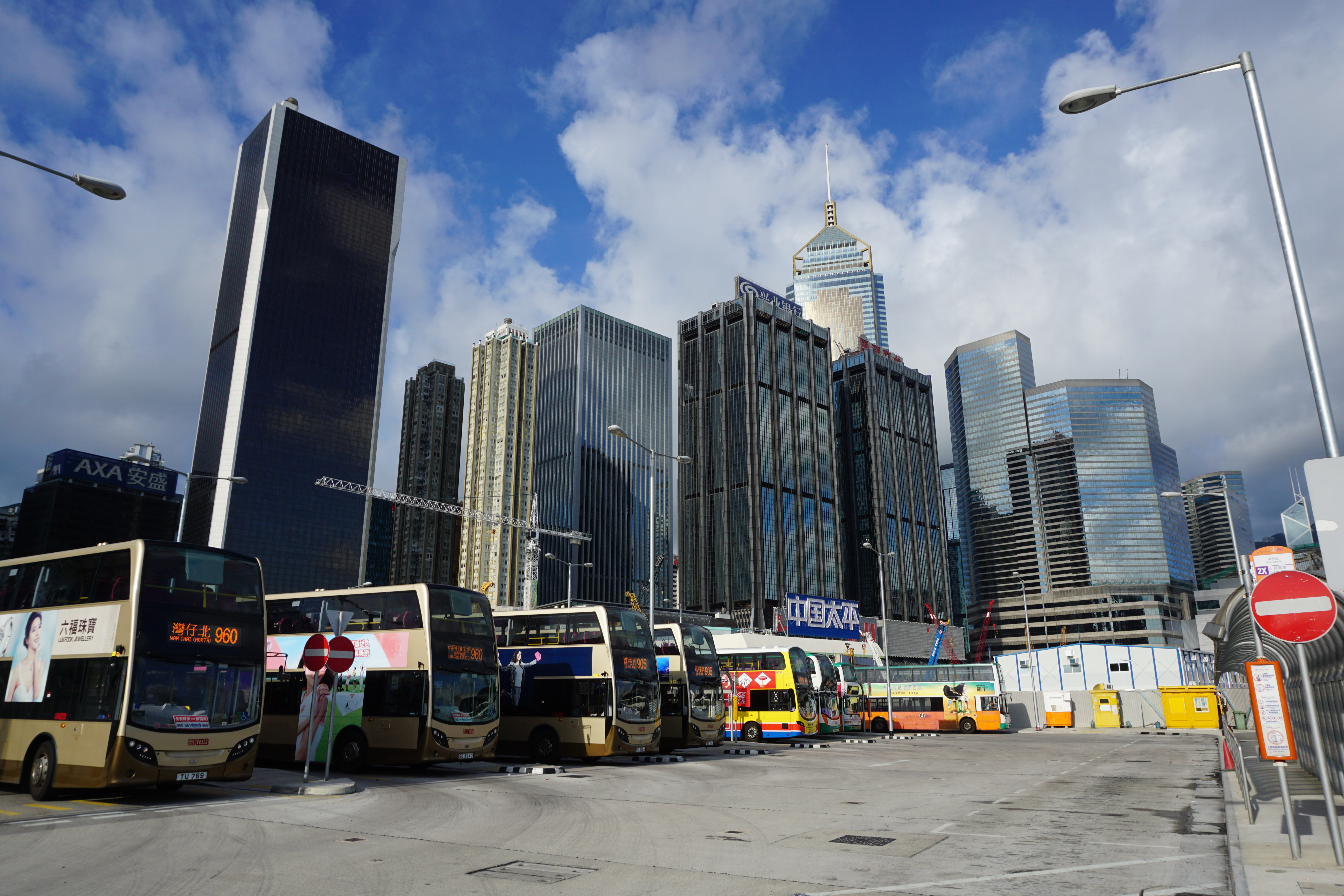 North Public Transport Interchange Wan Chai, Hong Kong.